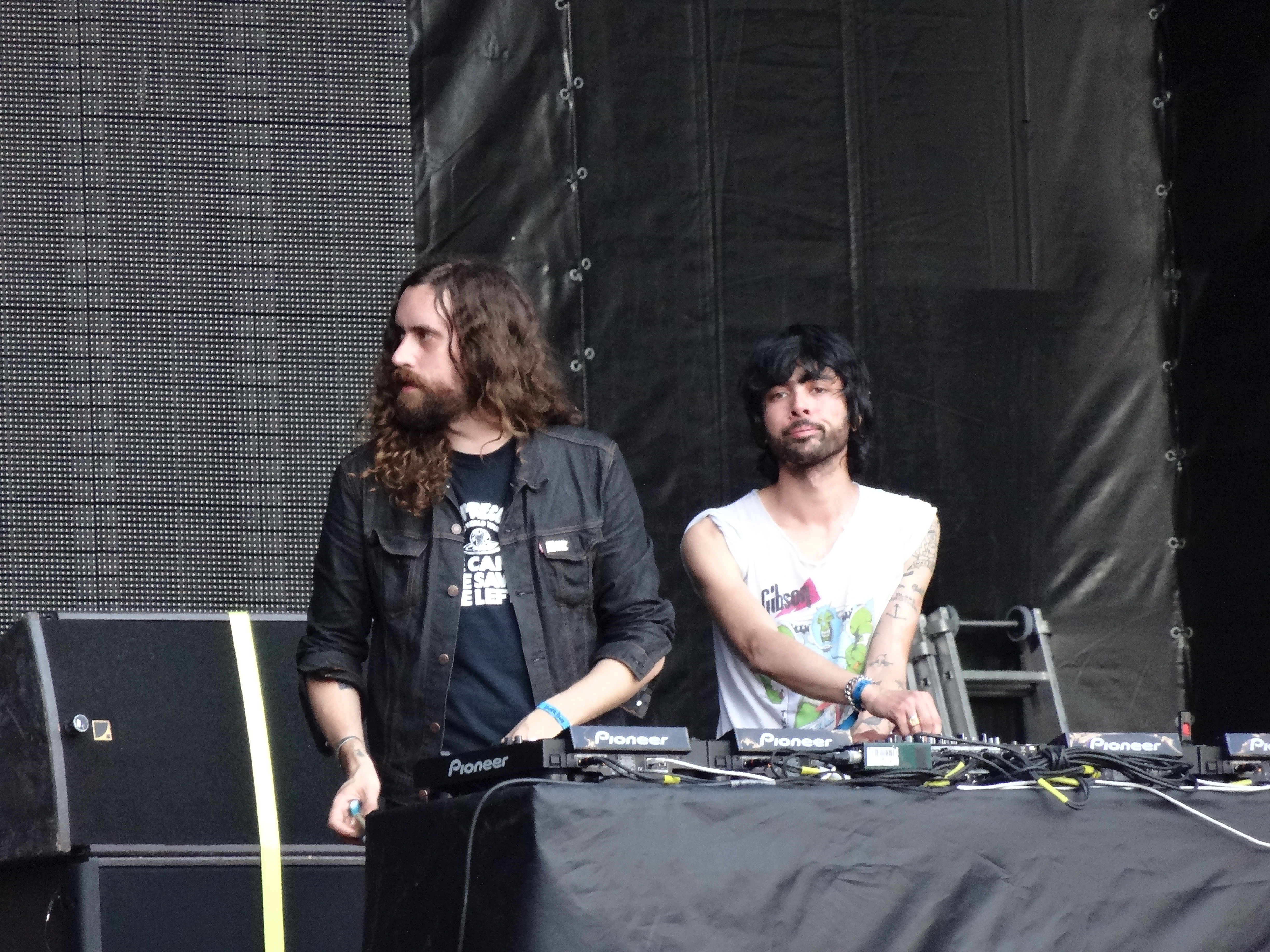 Justice @ Park Live Festival, VVC (All-Russia Exhibition Centre), Moscow, 29.06.2013